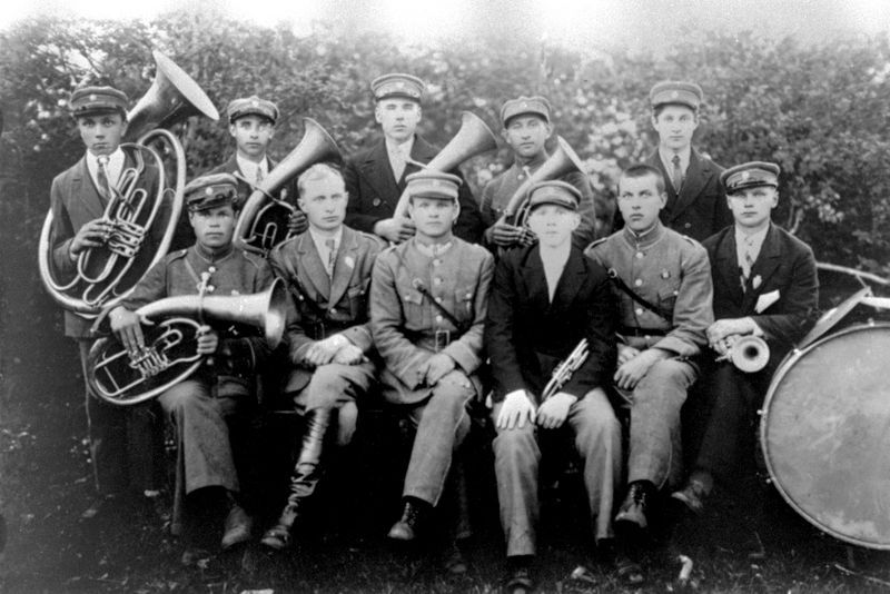 Orchestra of Lithuanian Riflemen from Salamiestis